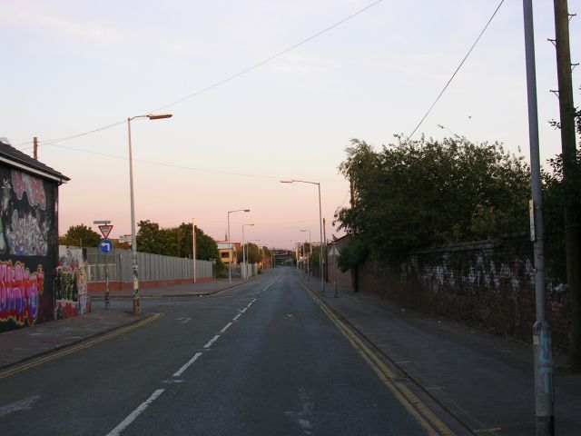 Gorton Road, Beswick. Looking SE down Gorton Road from its junction with Ashton Old Road. SJ865976.